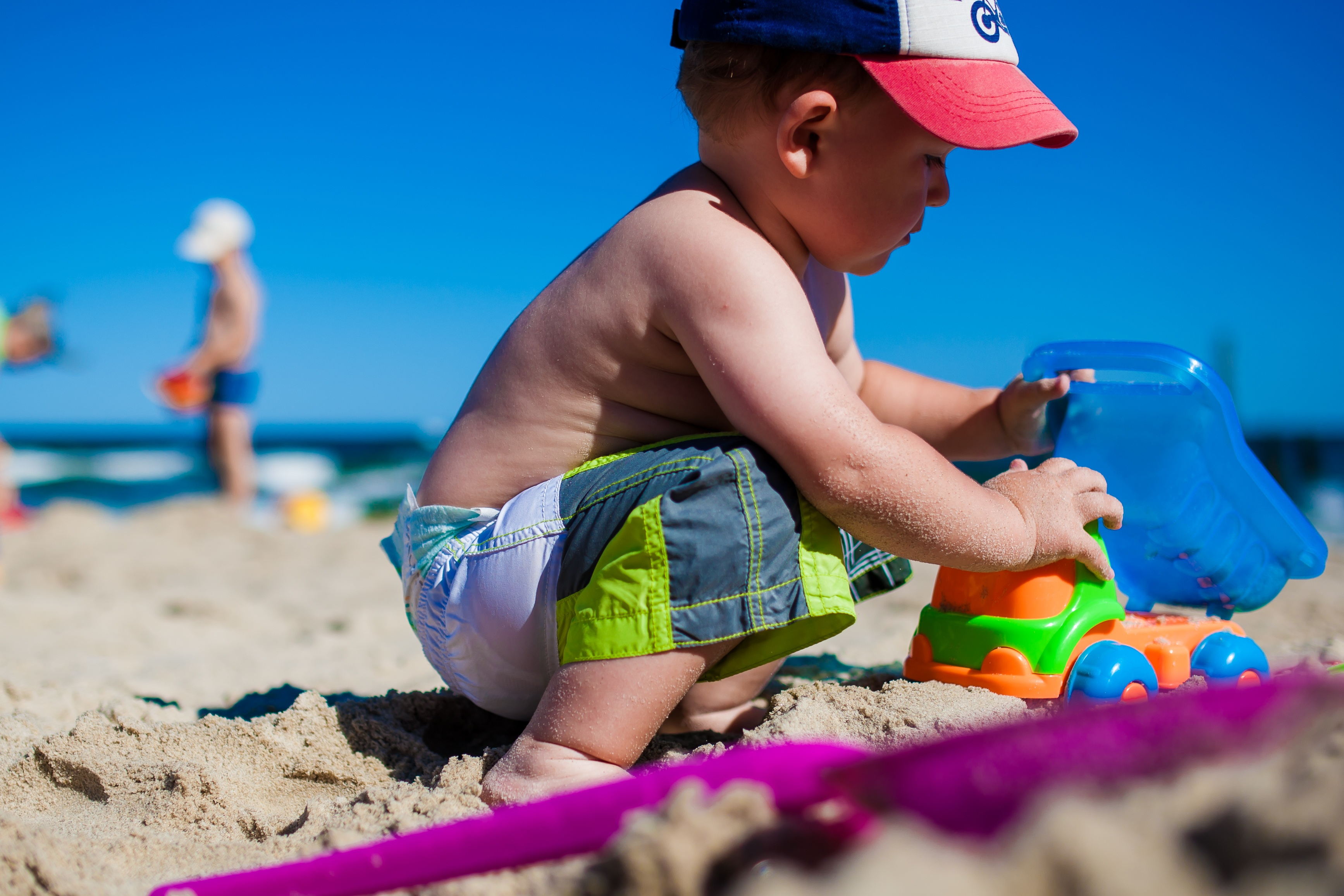 A boy child playing on the beach.